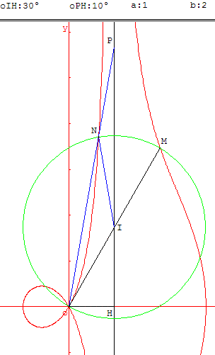 Conchoid of Nicomedes